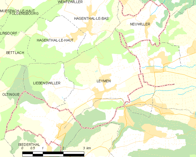 Map of French municipality